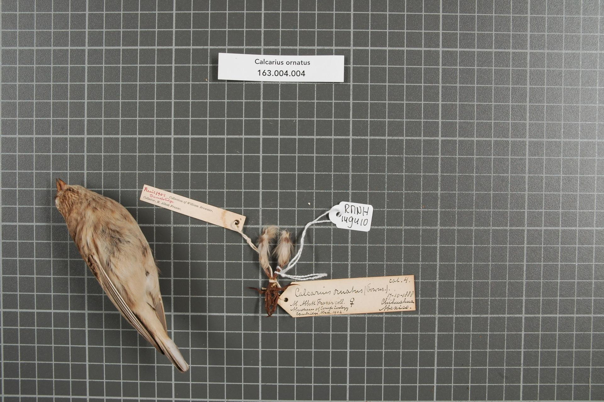 Prescarius ornatus (J.K. Townsend, 1837)